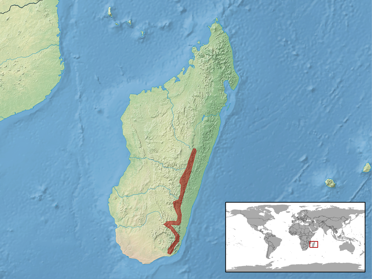 geographic distribution of Calumma oshaughnessyi (Native: Madagascar)